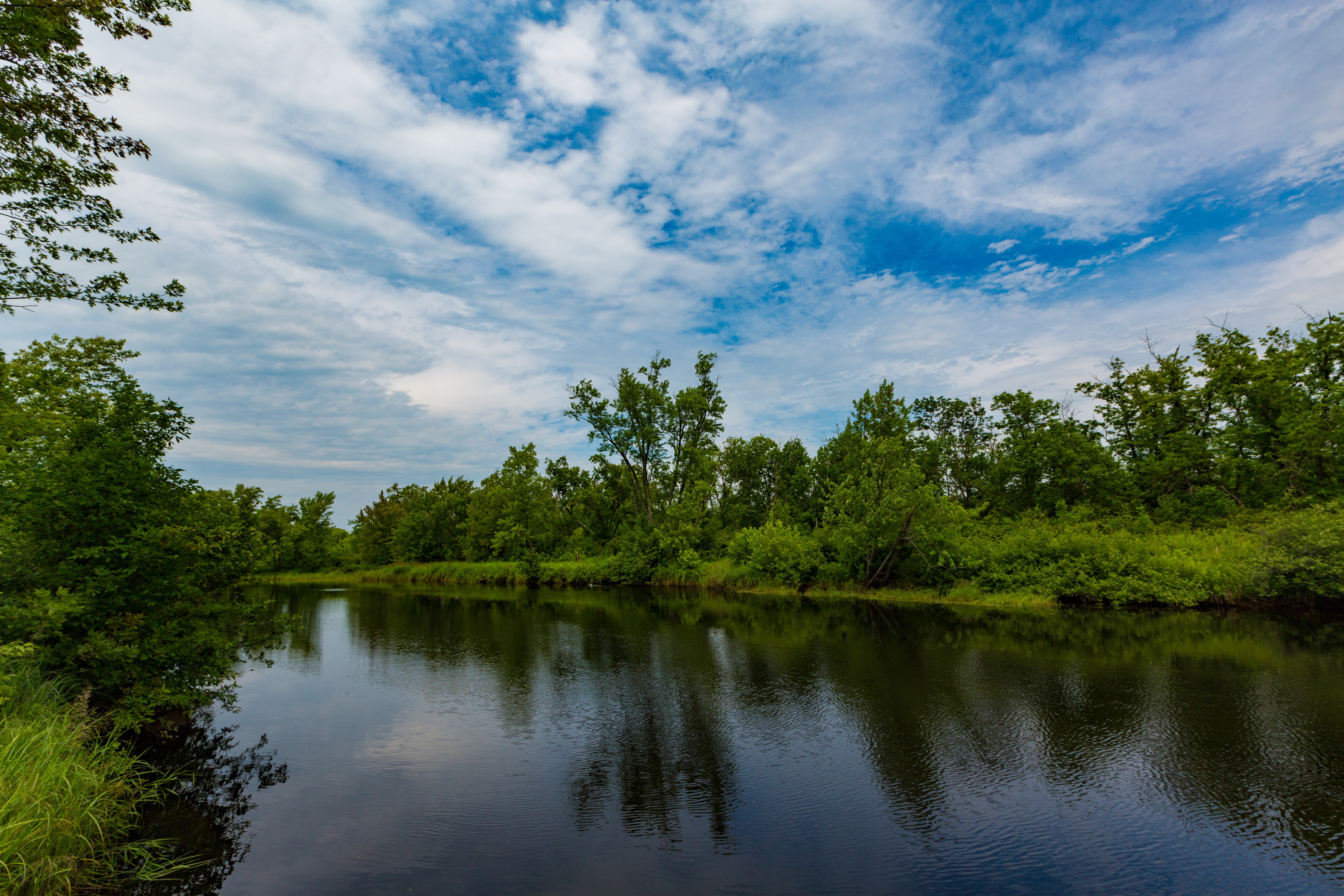 A picnic and campground area along the Cloquet River at the end of Carrol Truck Trail, a dirt road in Cloquet Valley State Forest, Minnesota.